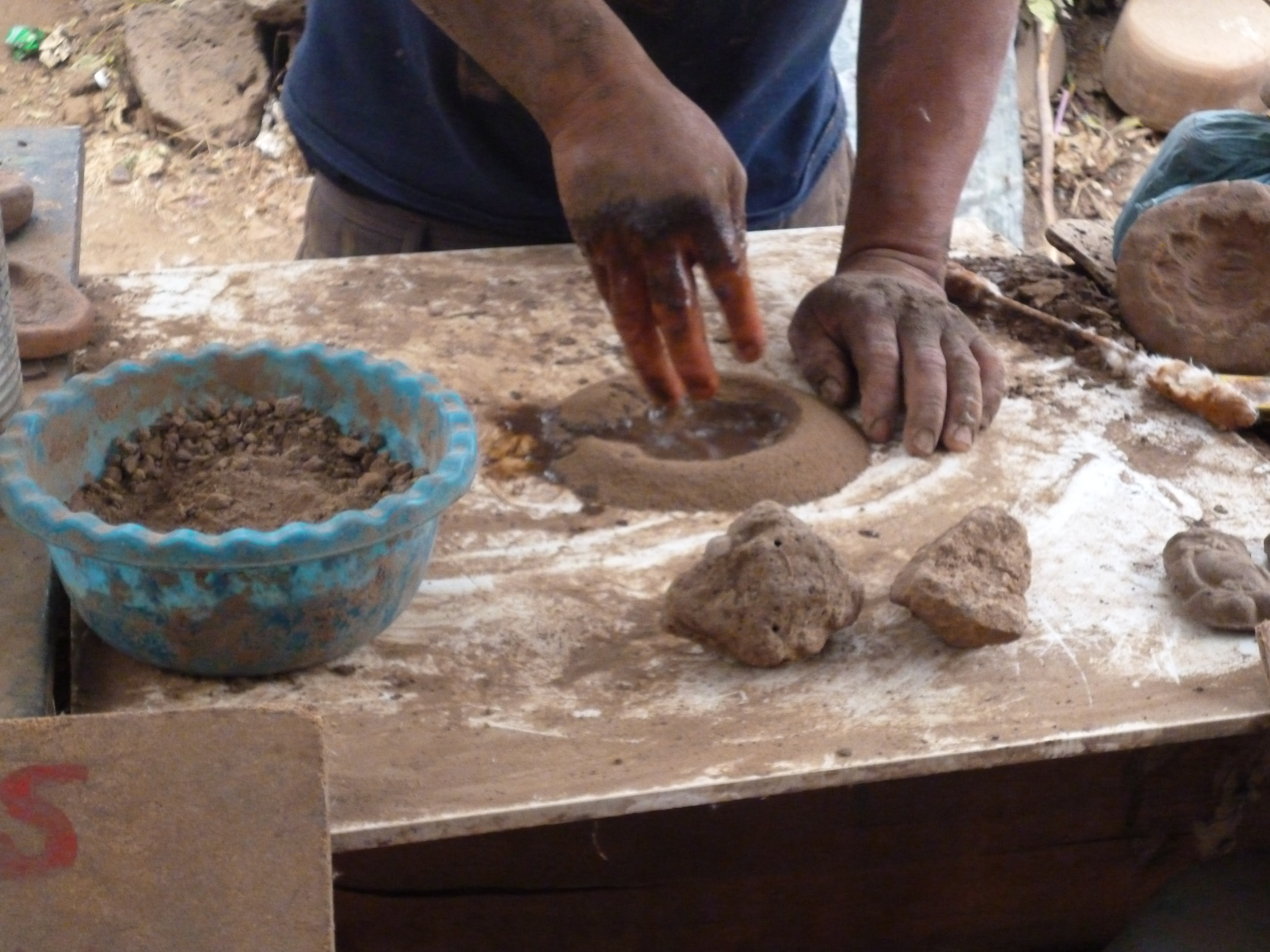 Demonstrating how clay is made in a pottery workshop in the village of Tlayacapan, Morelos, Mexico